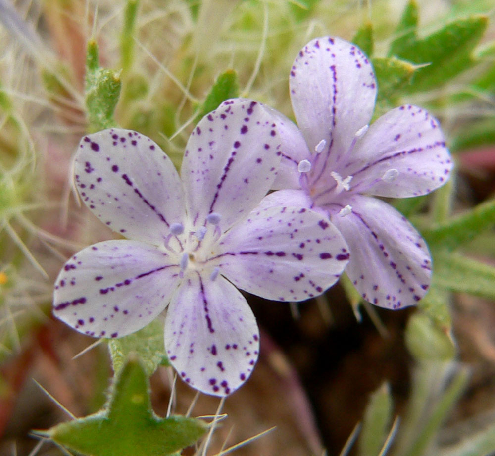 Photo of Langloisia setosissima in the desert west of Las Vegas, Nevada (just off the end of Tropicana Avenue)